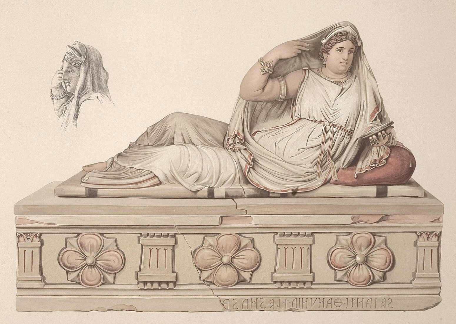 Seianti Hanunia Tlesnasa – Drawing after a watercolour 1886 by painter F. Eichler